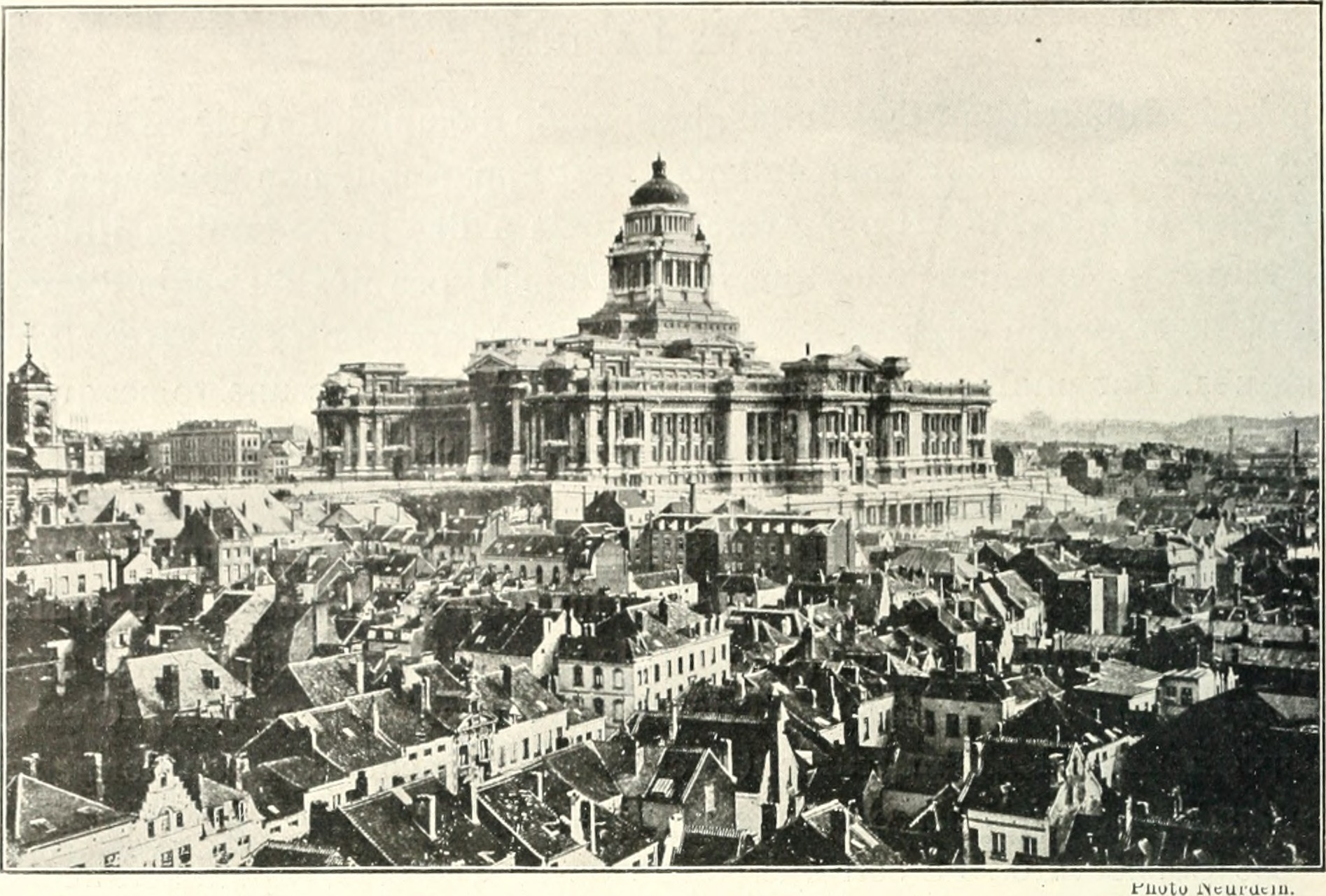 Title: Bruxelles Year: 1910 (1910s) Authors: Hymans, Henri, 1836-1912 Subjects: Art -- Belgium Brussels Brussels (Belgium) -- Description and travel Publisher: Paris H. Laurens Text Appearing Before Image: ser, conçue enst3le roman, de peu de relief, mais non dépourvue délégance. Text Appearing After Image: Le Palais de Justice. CHAPITRE XII LE PALAIS DE JUSTICE Tout en cheminant, nous voici arrivés au Palais de Justice, dont,chose dapparence quelque peu paradoxale, léloignement laissait à peinedeviner le caractère majestueux. Cest quen effet, par la percée de la rue de là Régence, la haute cou-pole ne suffit pas à faire valoir la valeur de lensemble, frappant sur-tout par son développement en largeur. Le plan primitif ne comportaitquun étage de colonnes ; larchitecte crut devoir, par la suite, donner plusdélévation au stylobate et à létage unique. Lassise nouvelle, remar-quable en elle-même, fait contraster létendue de la base avec lélance-ment du sommet. De là, pour lhomme de goût, un soulagement à sabandonner à lim-pression, en réalité saisissante, éprouvée quand, à moindre distance,les assises su))érieuresse confondent avec le relief de la façade. Lœil peutalors embrasser à laise lampleur dune conception qui nest pas seule- LE PALAIS Dl-: JUSTICE 115 men